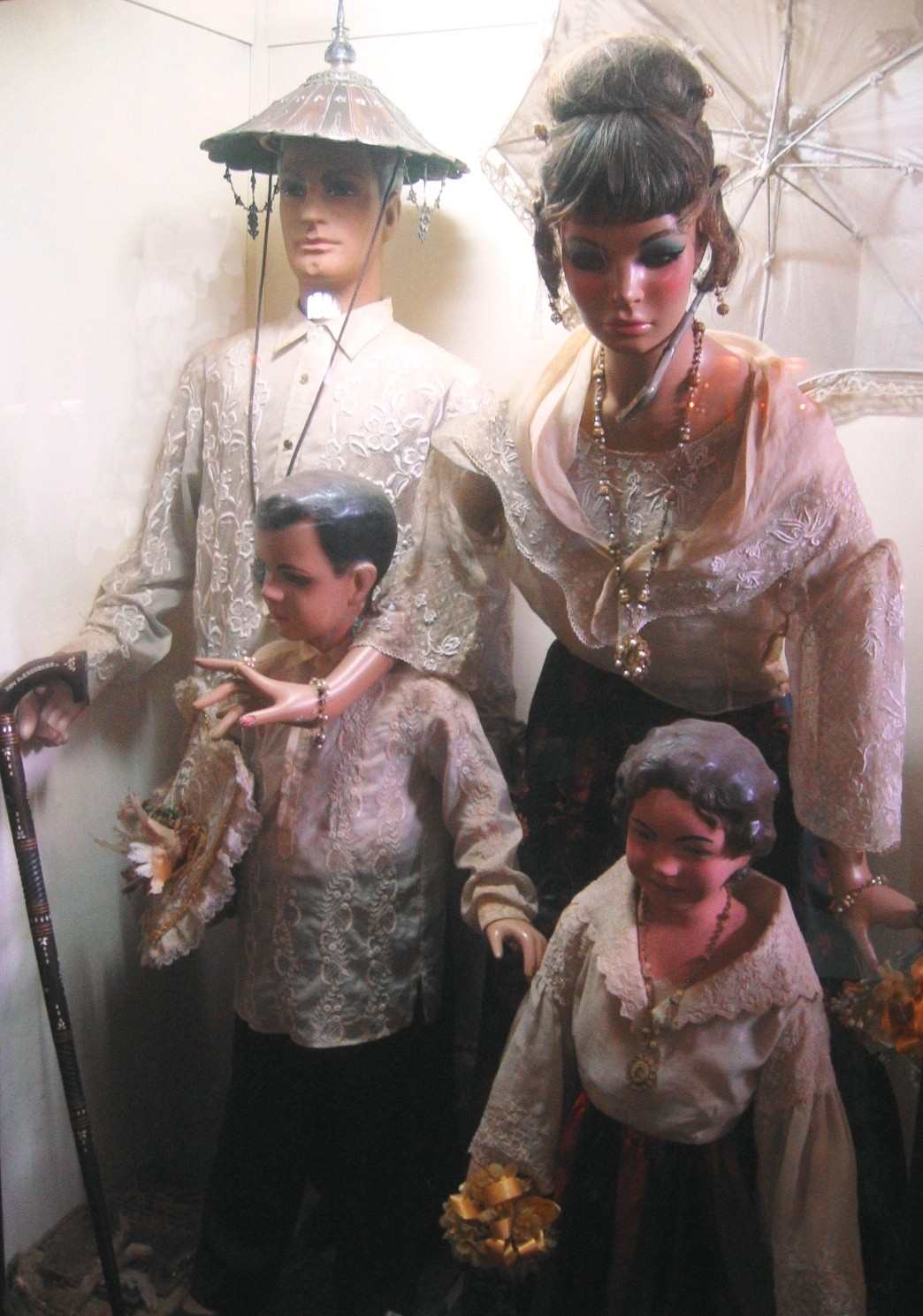 Costume typical of a family belonging to the Principalía during the late 19th century. Photo of exhibits in Villa Escudero Museum in San Pablo, Laguna, Philippines. Author: Sulbud 06:26, 6 July 2007 (UTC)